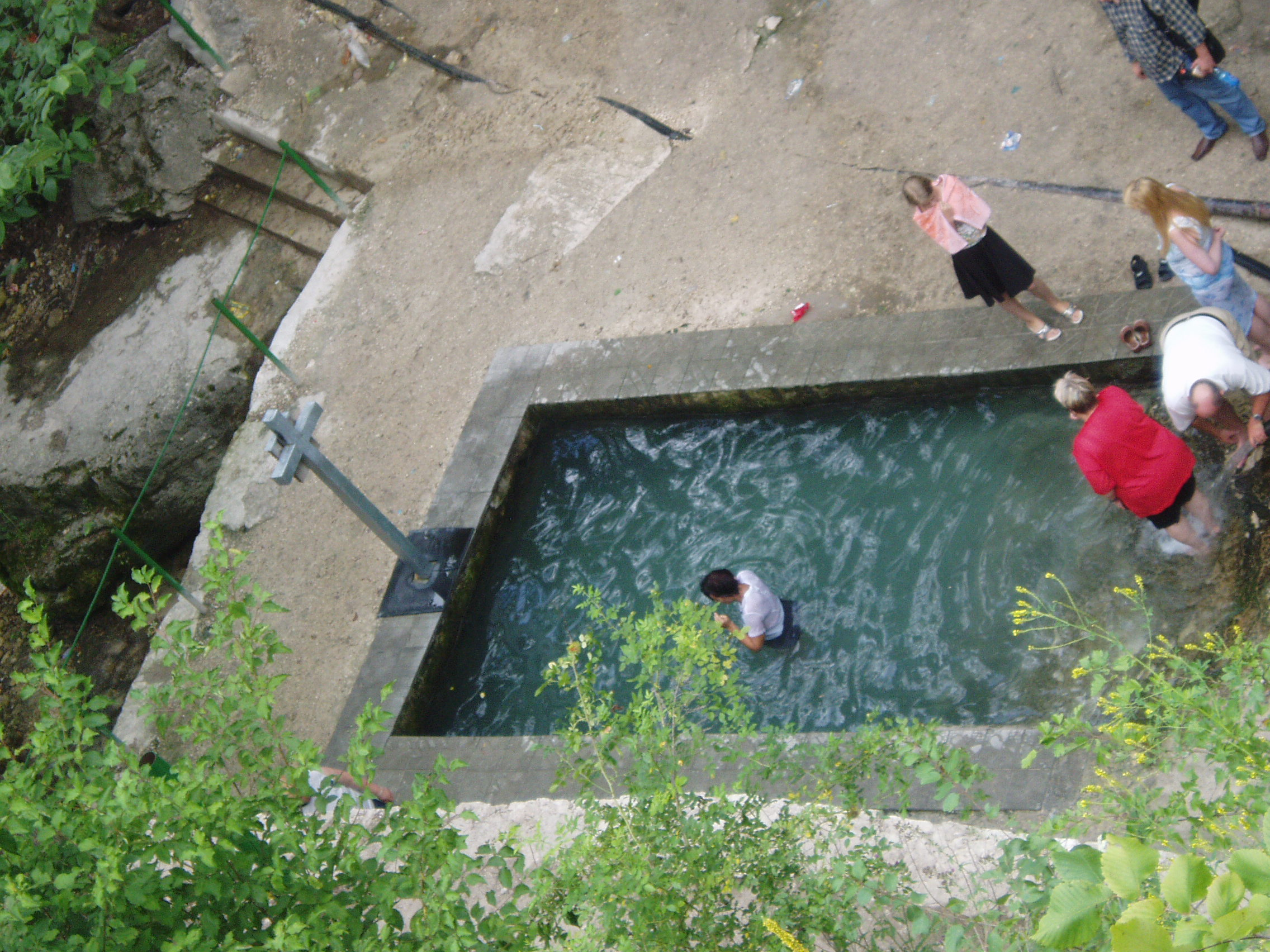 Looked like she kind of self-baptised herself over and over again, by jumping up and down in the cold water. As you can see it is holy water, and new cold water is being poured in all the time. We stood watching for more than 5 minutes, but I suppose she stayed there jumping up and down for at least 10-15 minutes. In Saharna, Moldova.